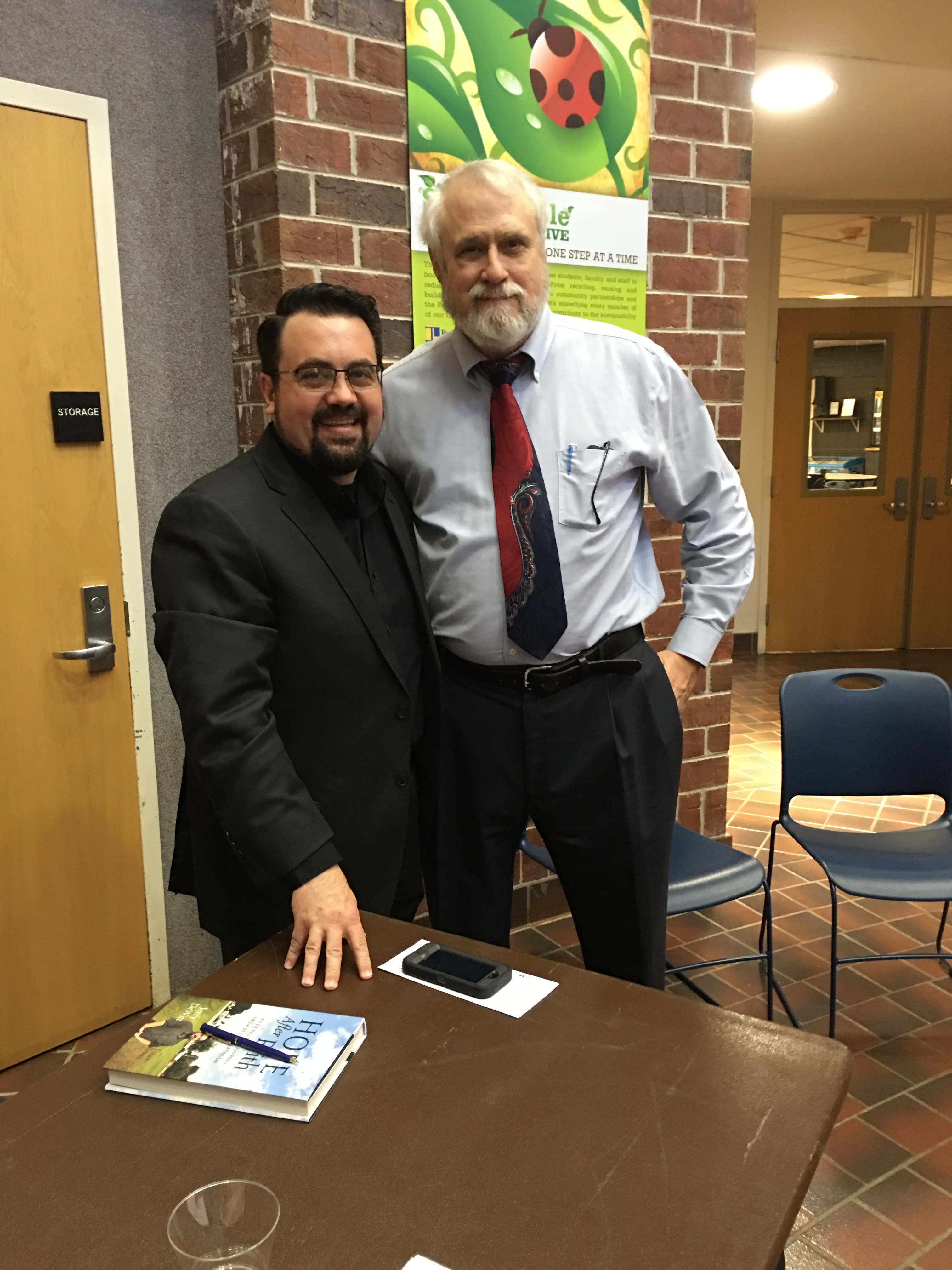 Larry on right, President of the Rationalists of East Tennessee, was host to author Jerry DeWitt at their annual speaking event held at the Pellessippi State Campus at Knoxville, TN, ~ May, 2015.